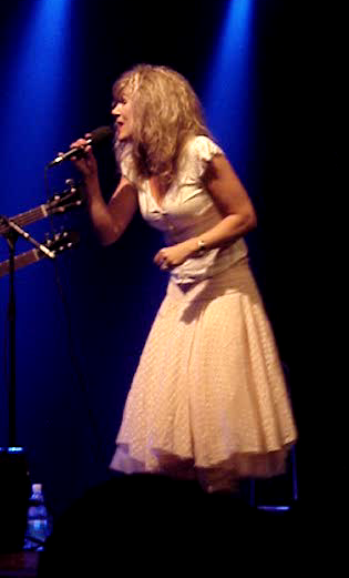 Anna-Mari Kähärä singing with her band at Jyväskylän Kesä -festival in 14th July 2007